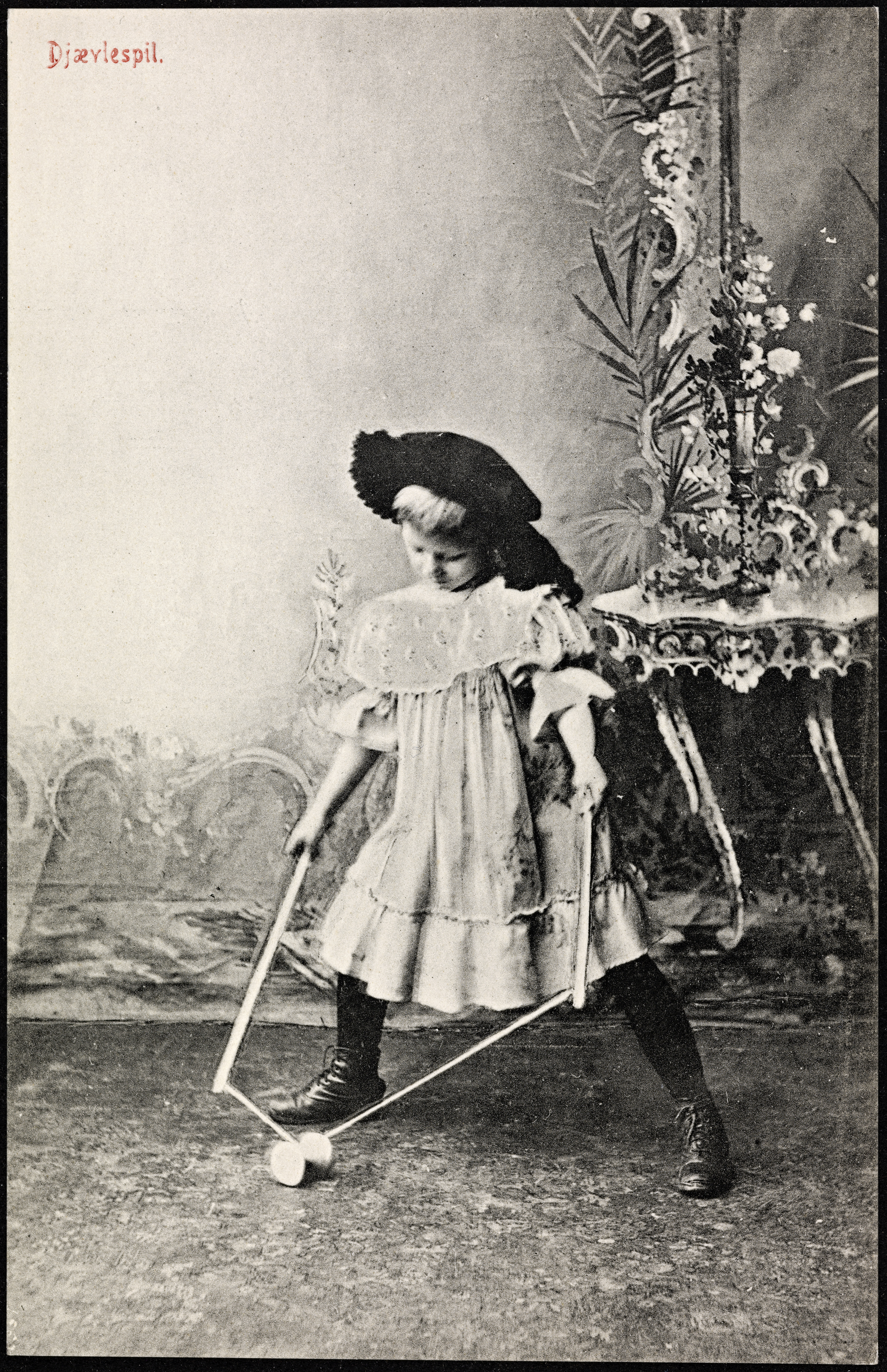 Description: postcard. Diabolo[devil sticks] is a toy which consists of an hourglass-shaped double cone (devil) of wood or metal and two wooden sticks with a cord therebetween. A person holding a stick in each hand, puts the diabolo on the strand and brings it to rotate at varying rates and quickly raises and lowers the pins so the cord tightens and slacks (source: snl.no). Date: unknown Photographer: unknown Publisher: N. K. Digital copy of original: postkort, lystrykk, s/h Owner Institution: Nasjonalbiblioteket / National Library of Norway Link: Image Number: blds_06195